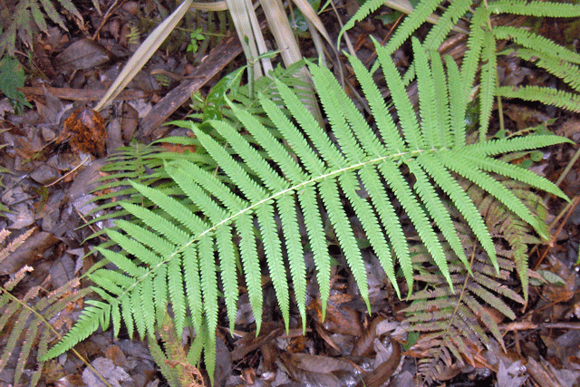 Found in Highlands Hammock State Park, Florida.